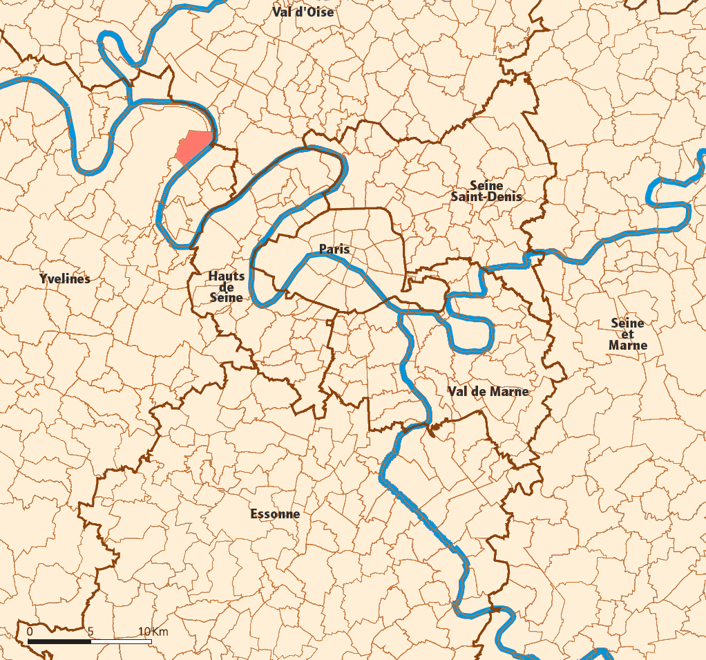 Created map myself.